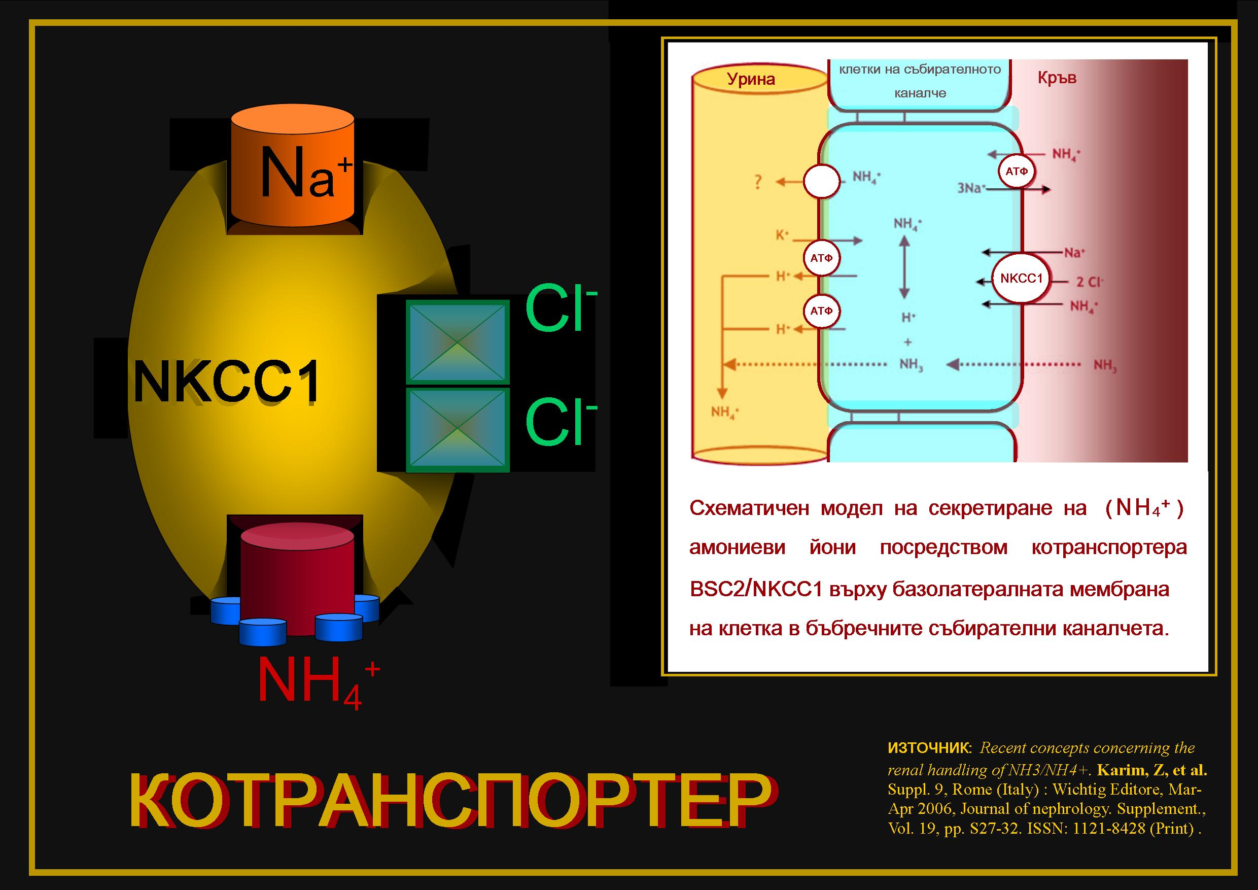 A simplified representation of the cotransporter BSC2/NKCC1 found on basolateral membranes of the collecting duct renal cells and in charge of transporting ammonium ions across into the lumen of the duct for excretion.